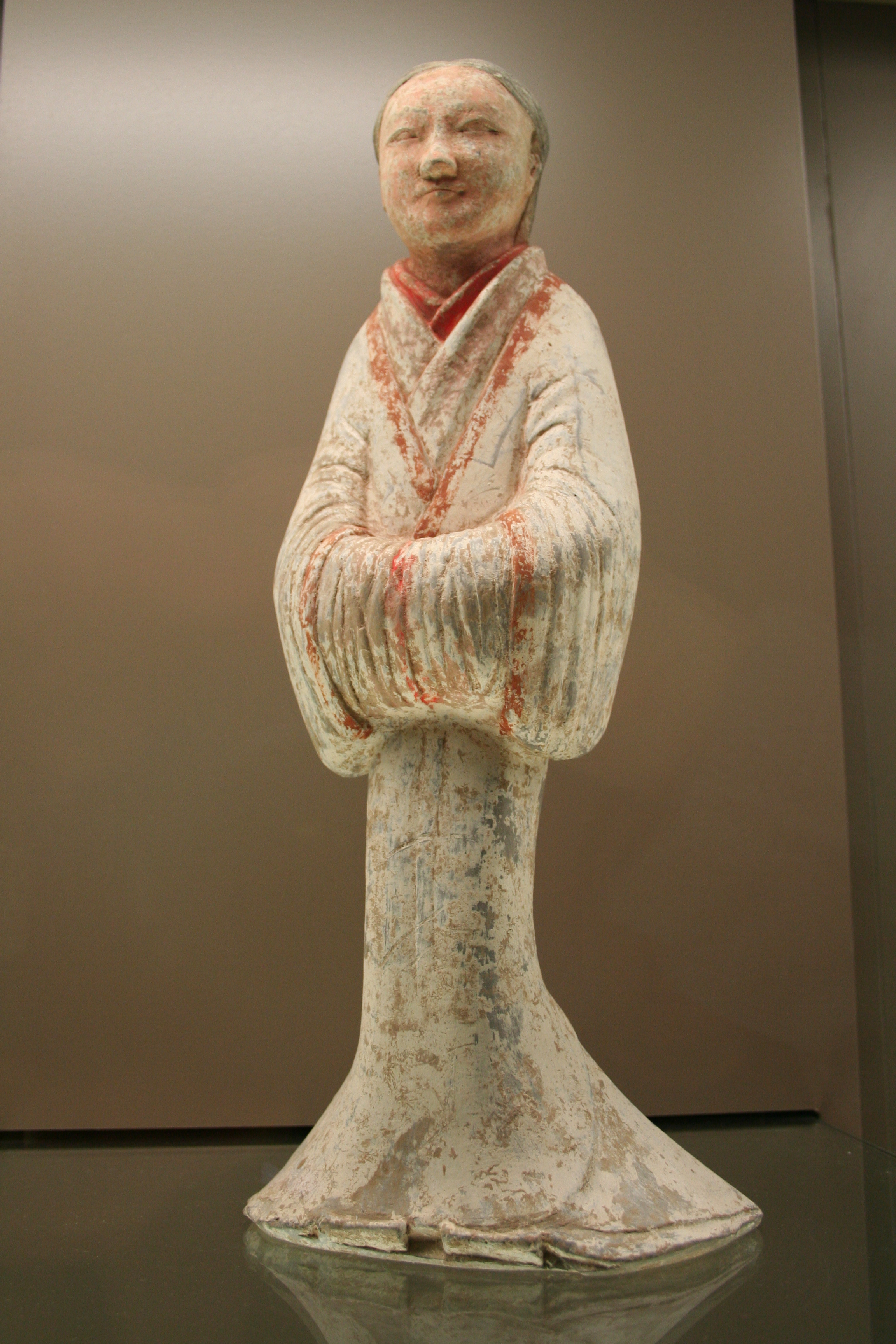 Servant (Shinü Yong). Terra Cotta. Shaanxi. Western Han Period (206 BC – 9 AD). Cernuschi Museum, Paris, France.